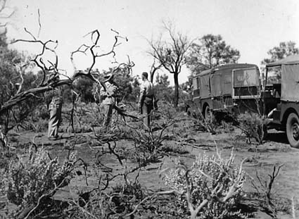 British nuclear tests in Australia - Atomic test site at Maralinga - Emu - Ooldea - Tietkens Well - Reconnaissance - October 1953 - MARA/179 - Photo 22